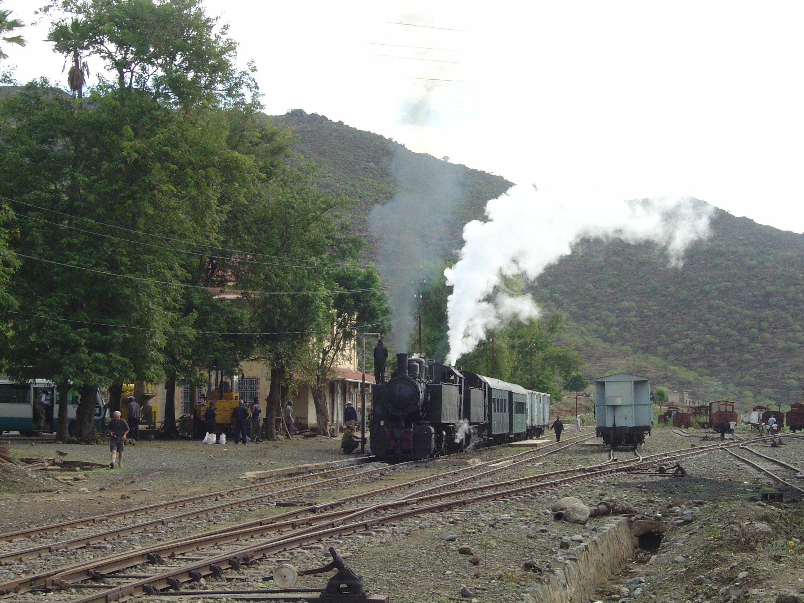 Ghinda railway station, Eritrean Railway